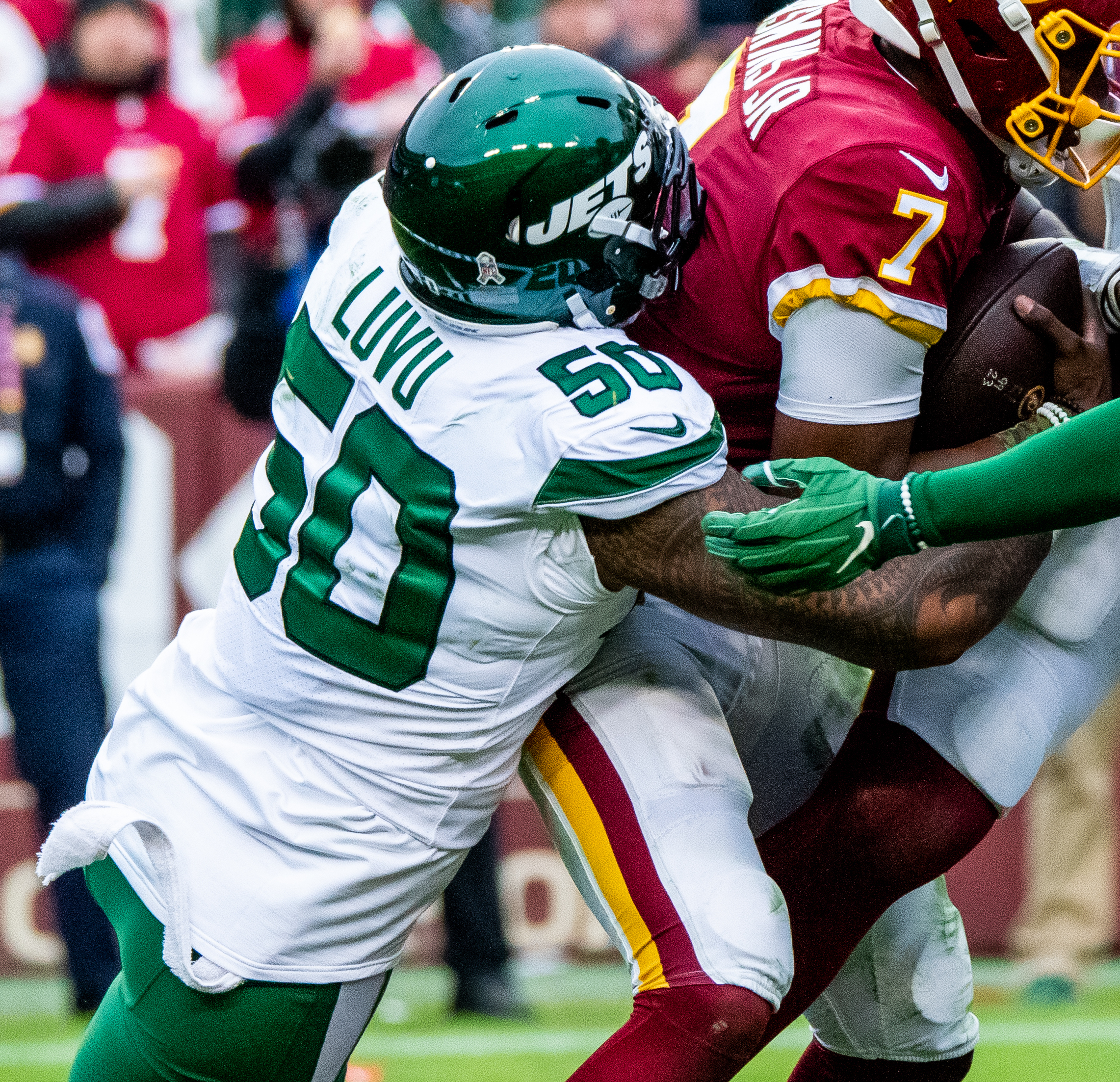 In 2019